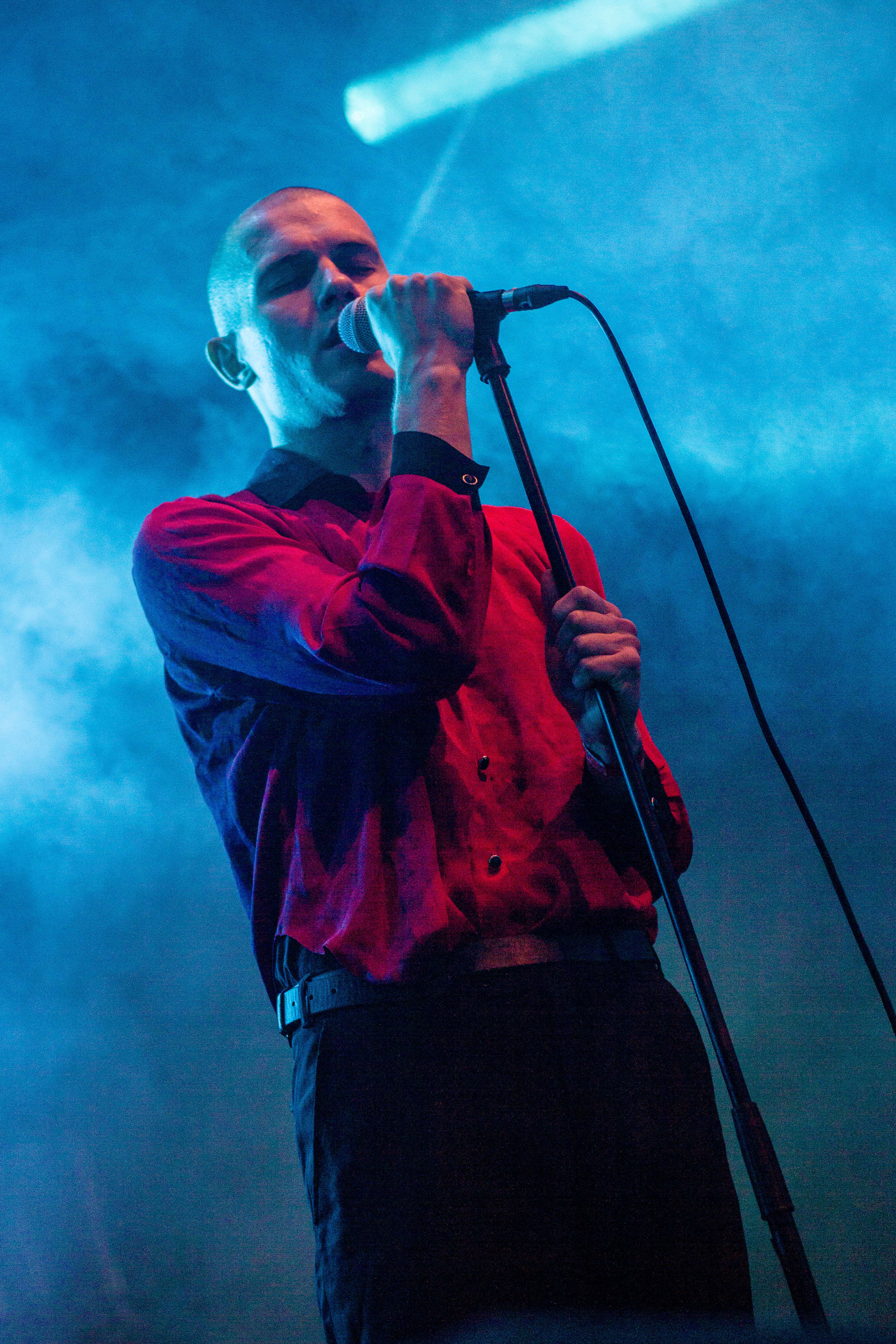 Shortparis at Haldern Pop Festival 2018 in Haldern